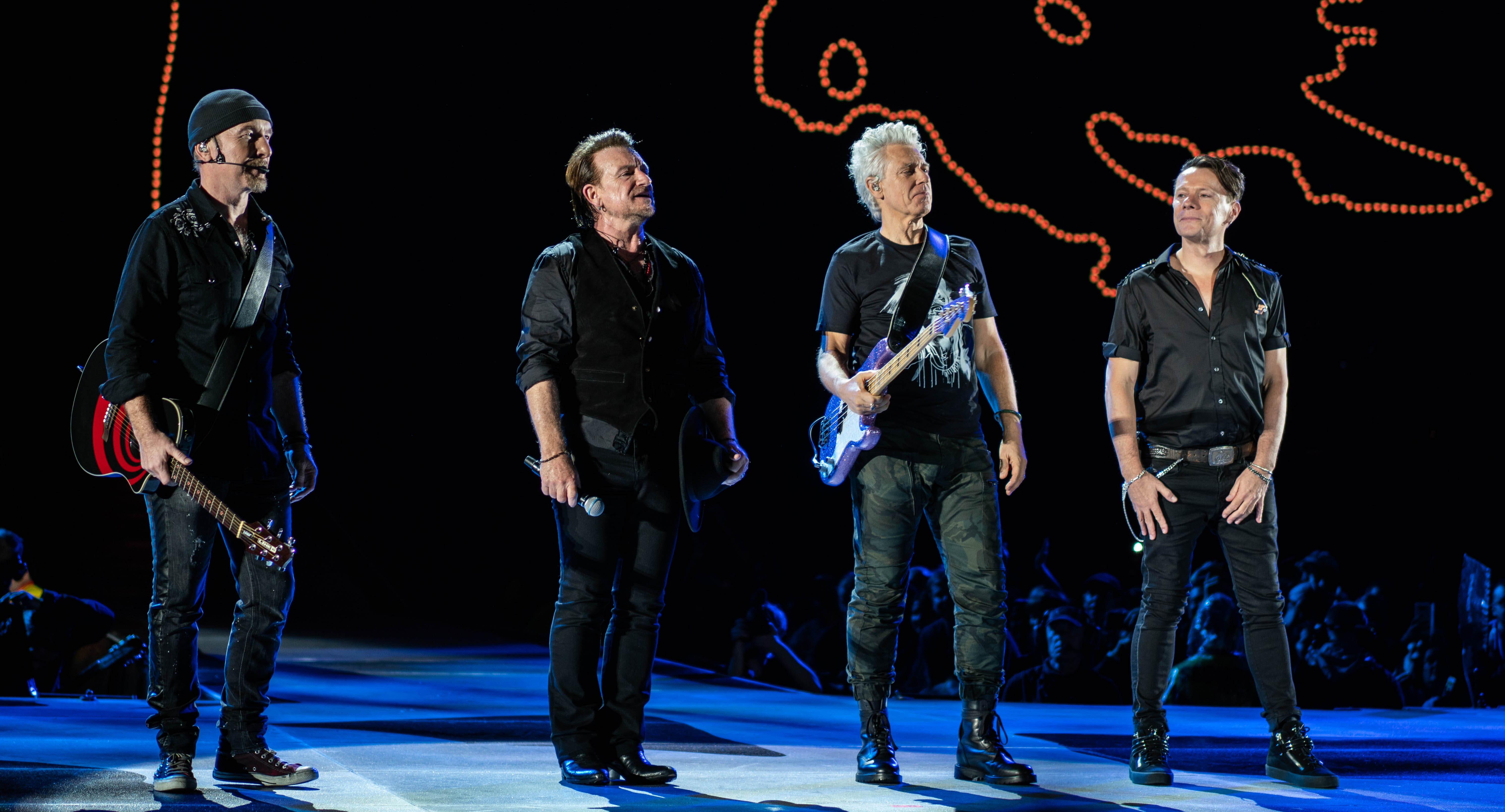 Irish rock band U2 performing at Sydney Cricket Grounds in Sydney, Australia on November 22, 2019, during the band's The Joshua Tree Tour 2019